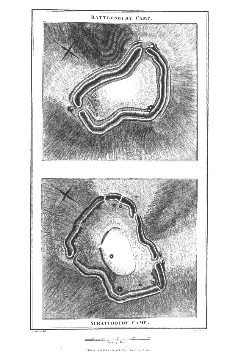 Pencil sketches of Battlesbury camp and scratchbury camp hillforts in wiltshire